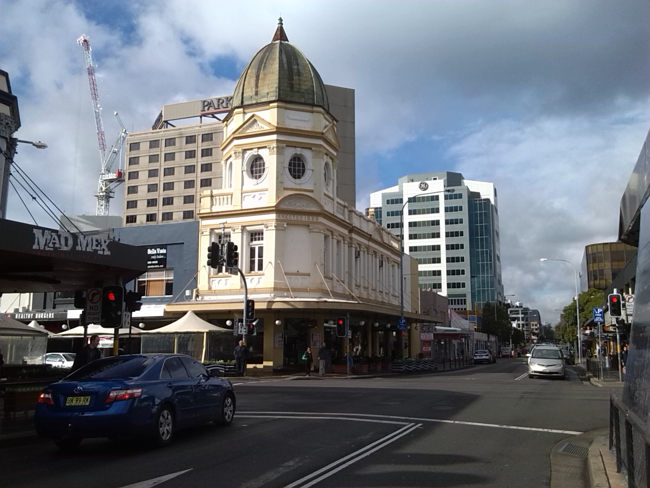 Looking East along Phillip Street, across intersection with Church Street, Parramatta, New South Wales. At left is Mad Mex restaurant. Facing on corner is 306 Church Street, with tower dated 1889, now reduced to restaurants.